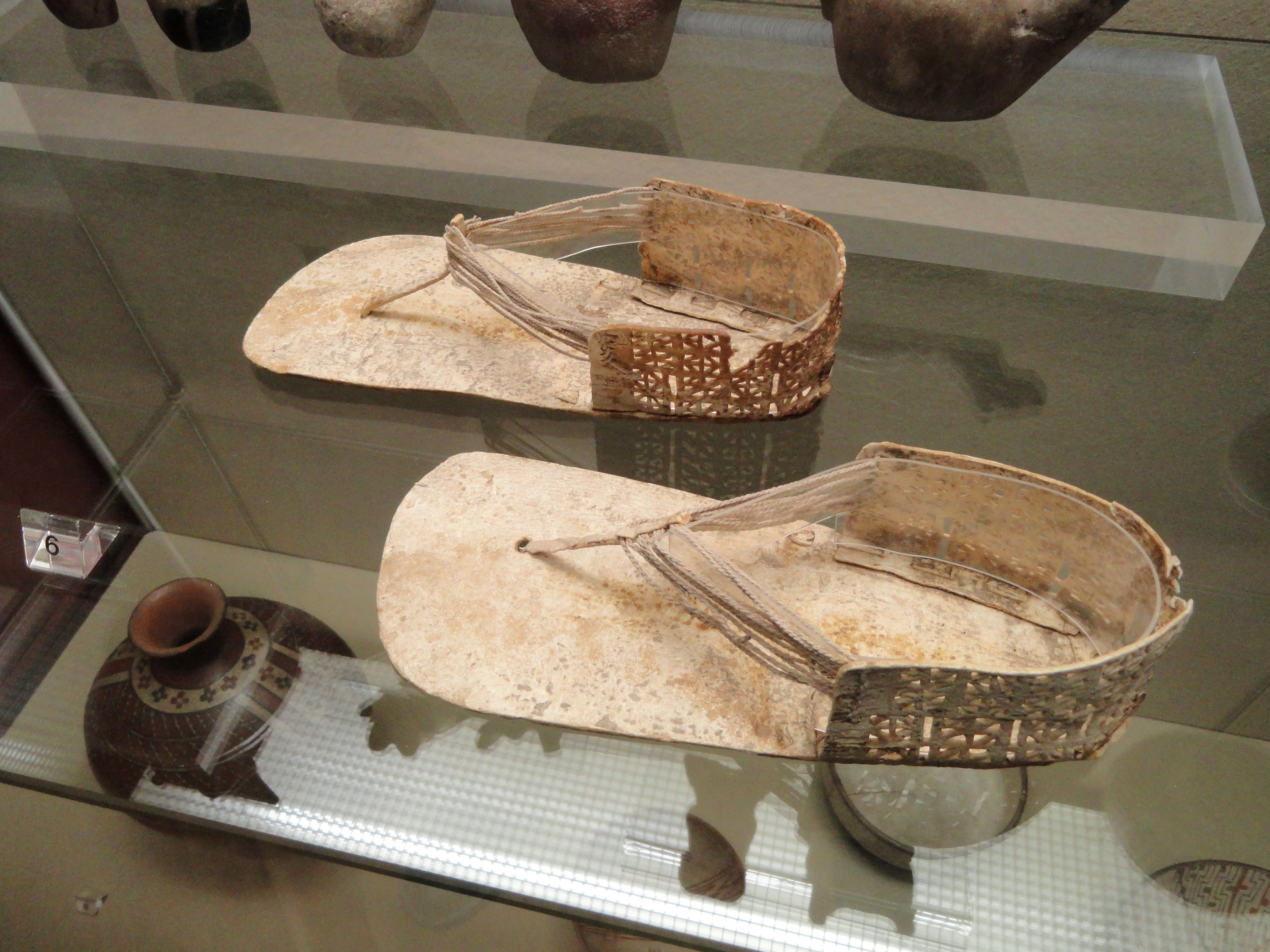 Exhibit from the Latin American collection of the Staatliches Museum für Völkerkunde München, Maximilianstraße 42, Munich, Germany. Sandals, leather, Nasca, 100-700 AD, Peru.